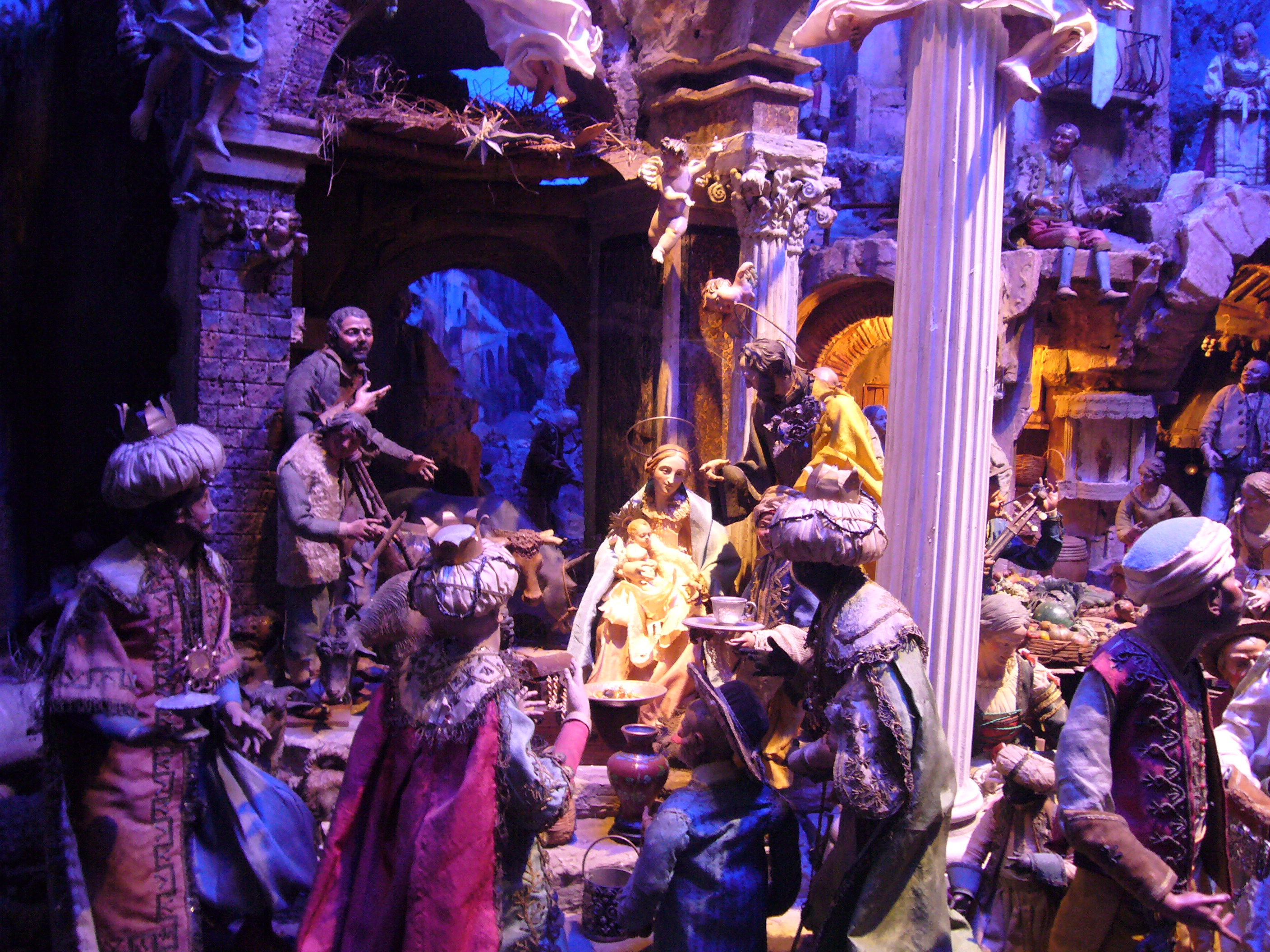 Detail from a Neapolitan presepe, currently on display in Rome. By Howard Hudson (2006)